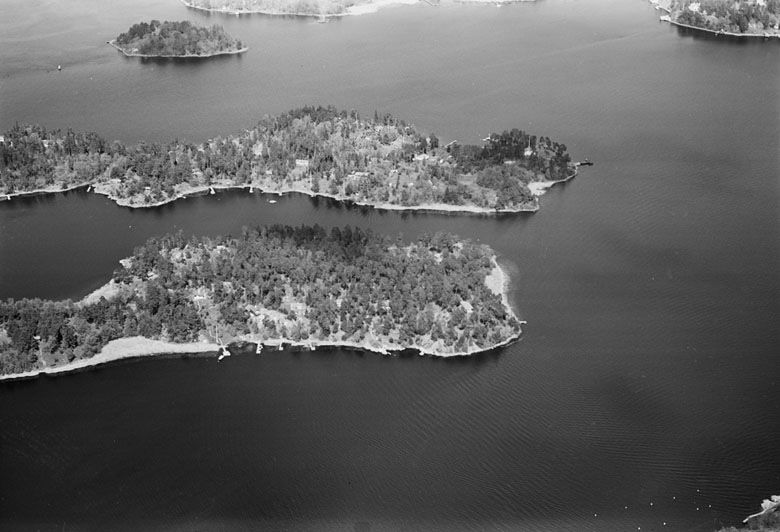 The islands of Edö Tallholme (nearer) and Edholma.